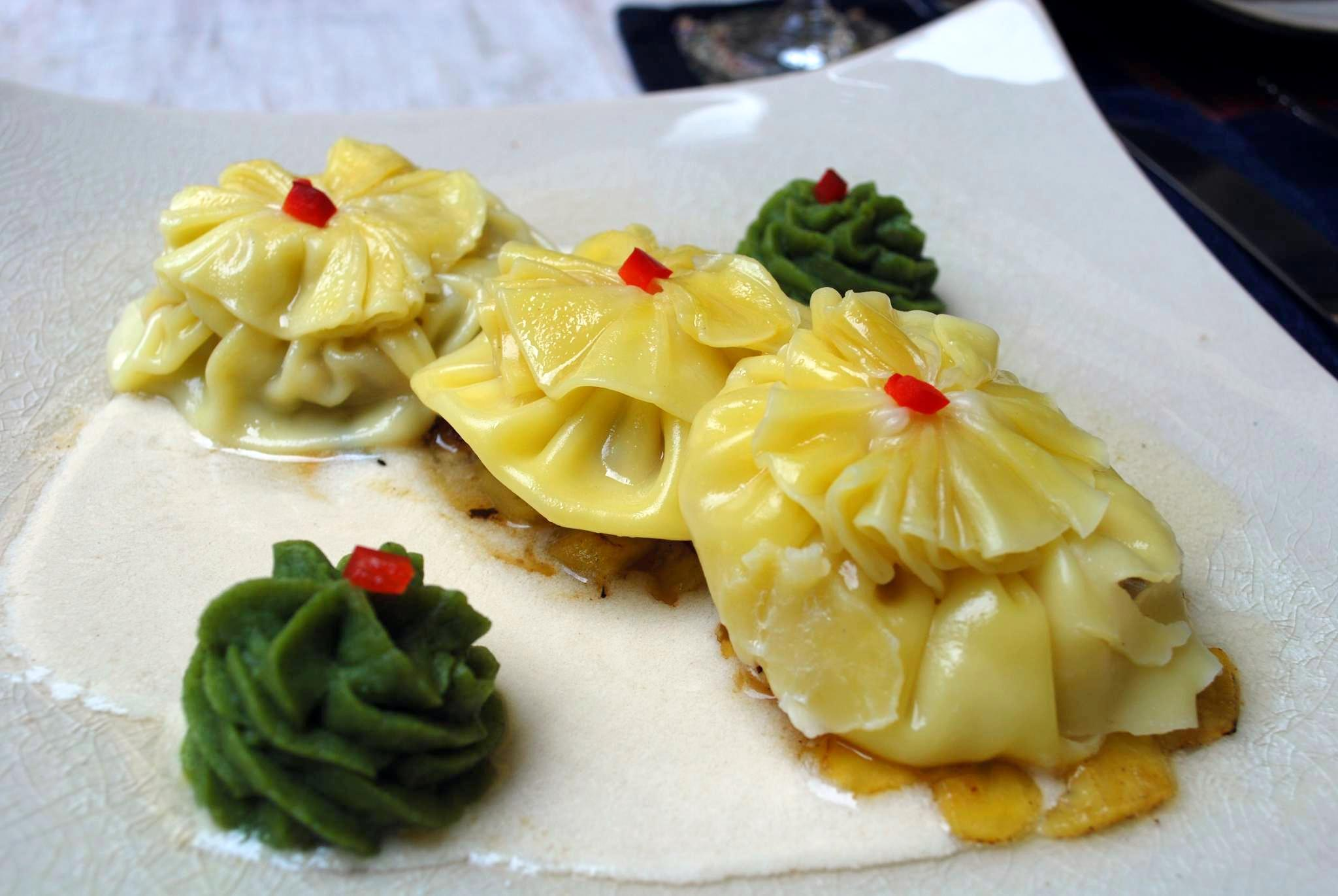 Salmon and sea bass ravioli served in lime and tofu milk